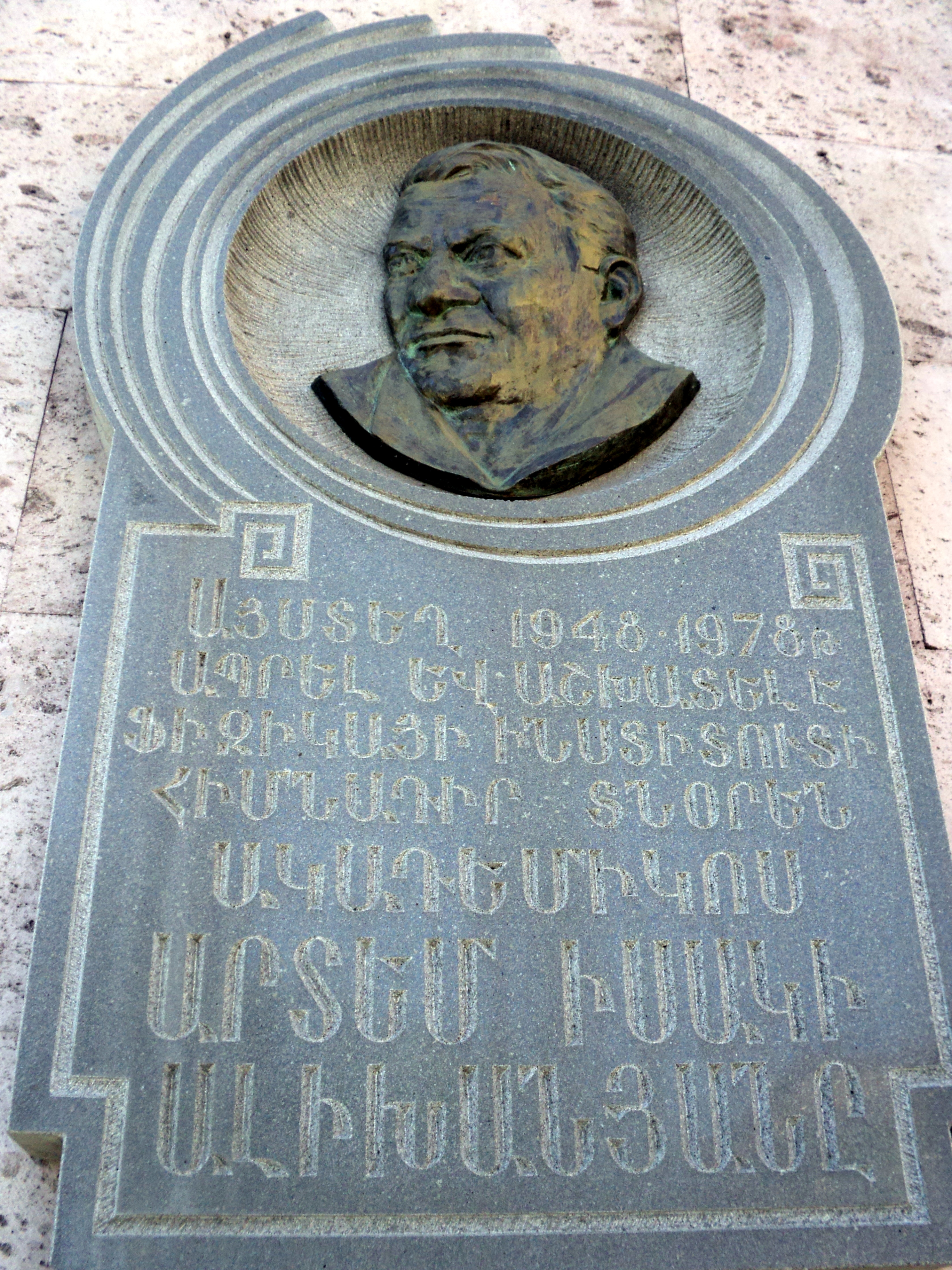 Artem Alikhanyan's Plaque